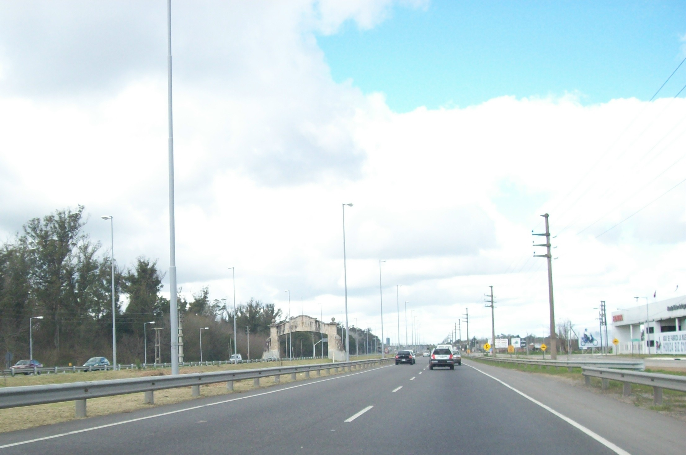 Provincial Route 2 (Autovia 2) - Provincial Route 36 in Pereyra Iraola Park, in Berazategui (to the left) - Florencio Varela (to the right) Partidos border, Buenos Aires Province, Argentina.